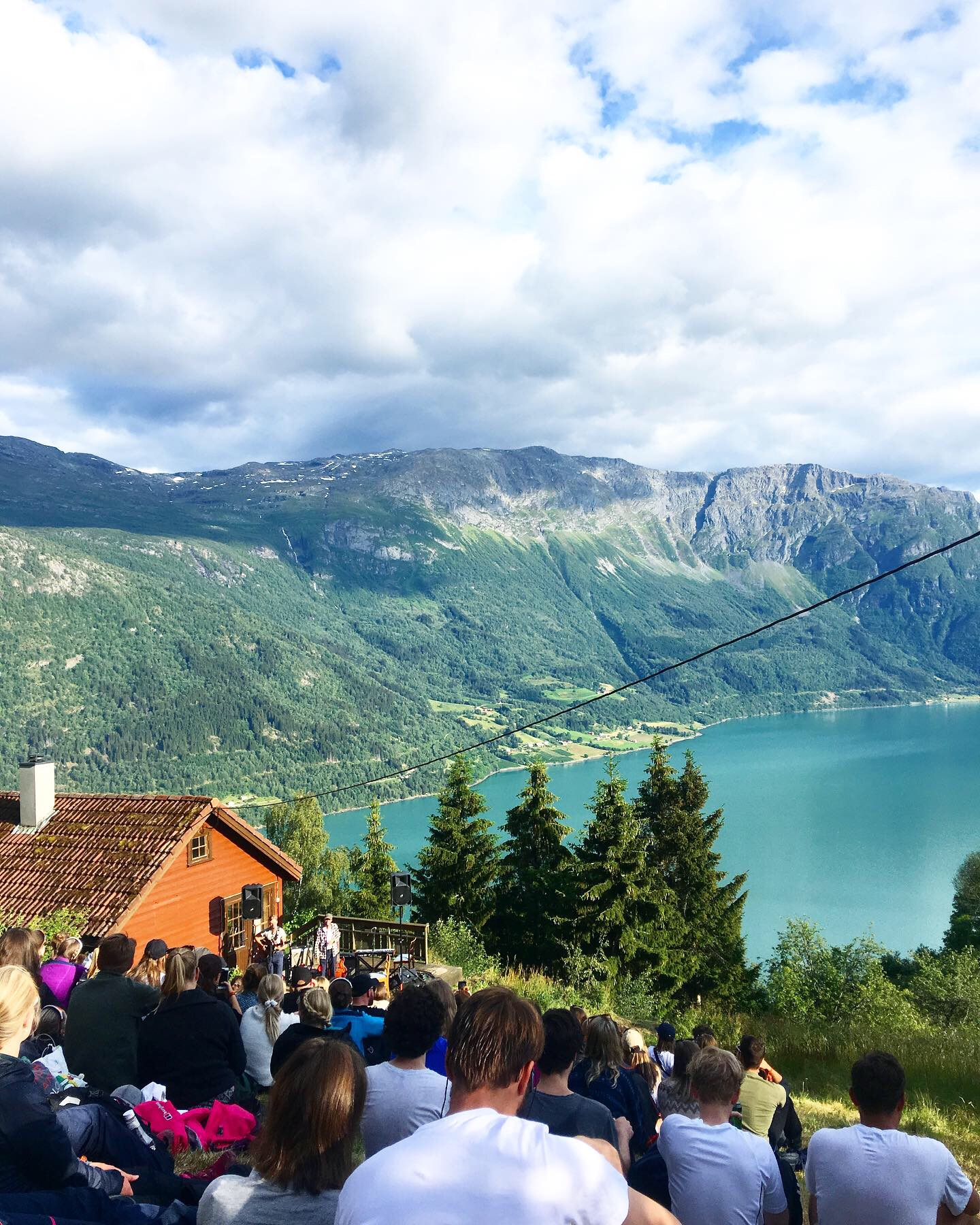 This is a picture of a crowd watching the Norwegian folk duo Temporary playing at the Bergtatt music festival in Luster, Norway, in the summer of 2019. The stage is situated on a cabin porch 360 masl.